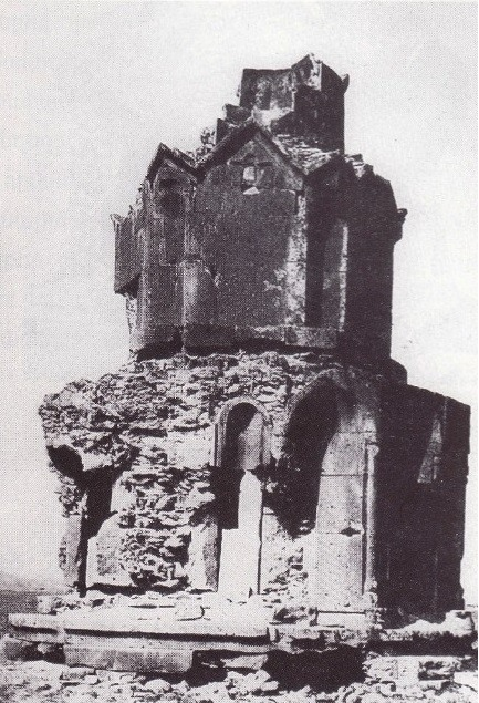 The Church of Hovvi in Ani in 1920. Now completely destroyed.